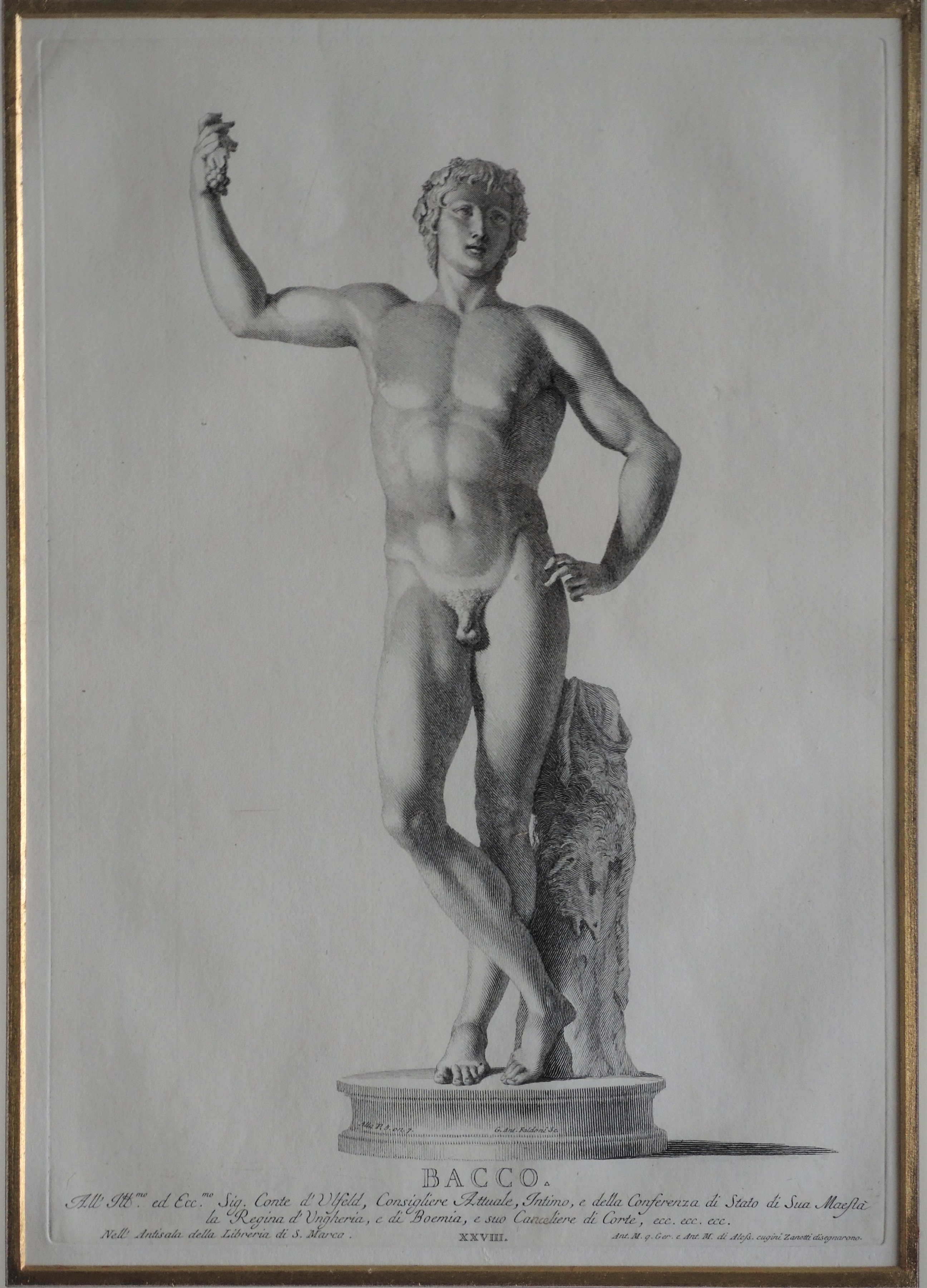 Giovanni Antonio Faldoni (Asolo 1689 – Rome 1770) was one of the most influential engravers of 18th century Florence . Using his open paged, borderless style, his work expands and becomes visually large; making the image the only thing of importance. Being influenced by the 17th Century French engraver Claude Mellan, Faldoni used a system of parallel lines of varying thickness to give the illusion of plasticity and contour, without the need of cross hatching to give depth. His work was typical of 18th century Neoclassicism and the fascination with all things Greek and Roman.